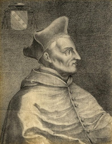 Cardinal Nicola Capocci